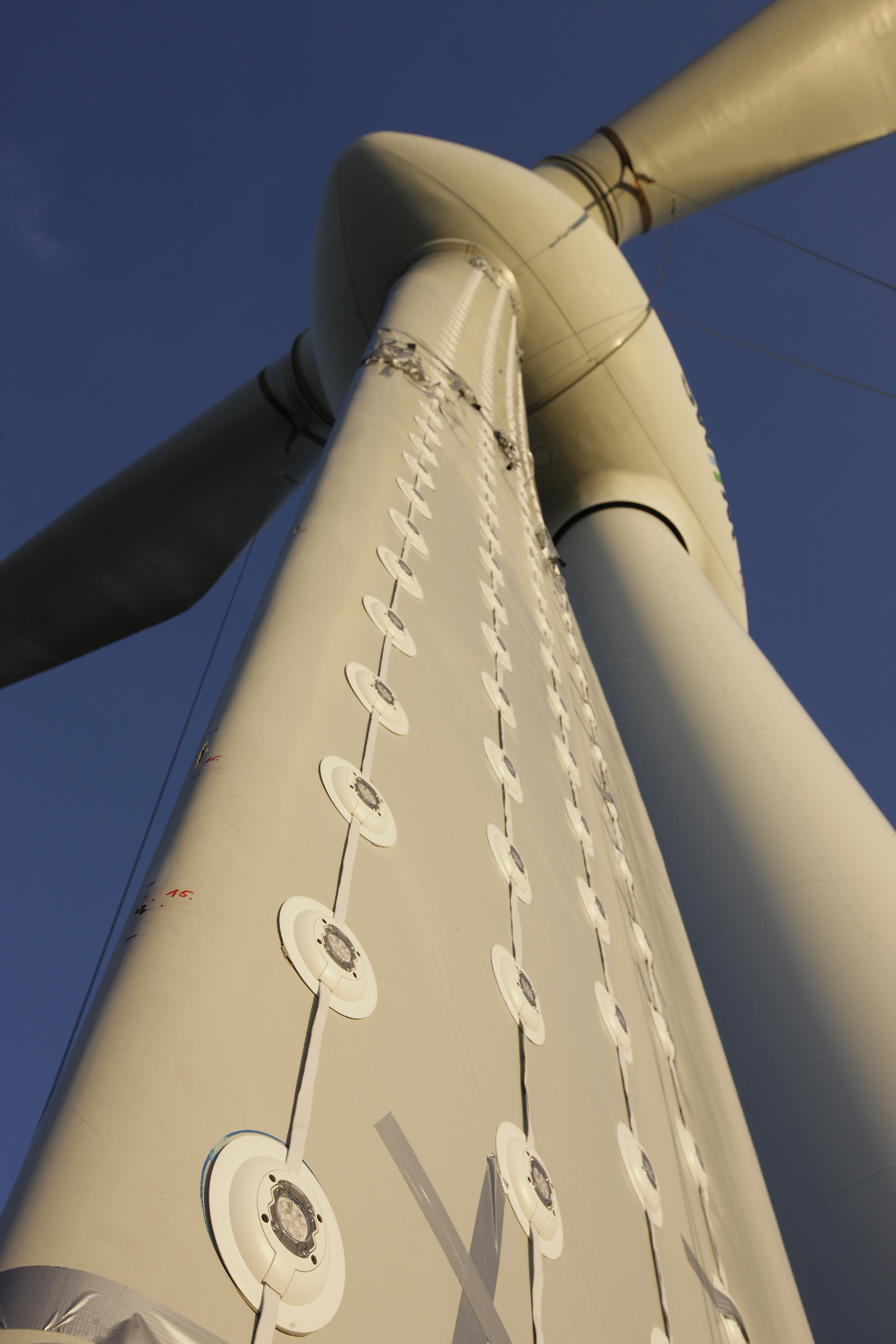 Art and Business for a Green Future In a visionary project, Munich multimedia artist Michael Pendry and Siemens AG have joined forces to create a symbol for renewable energy, innovation and sustainable action. Every evening from the opening of the Advent season until the end of the year, the world‘s biggest revolving Christmas star will light over Munich and show people that there is no alternative to climate protection: We must act now!